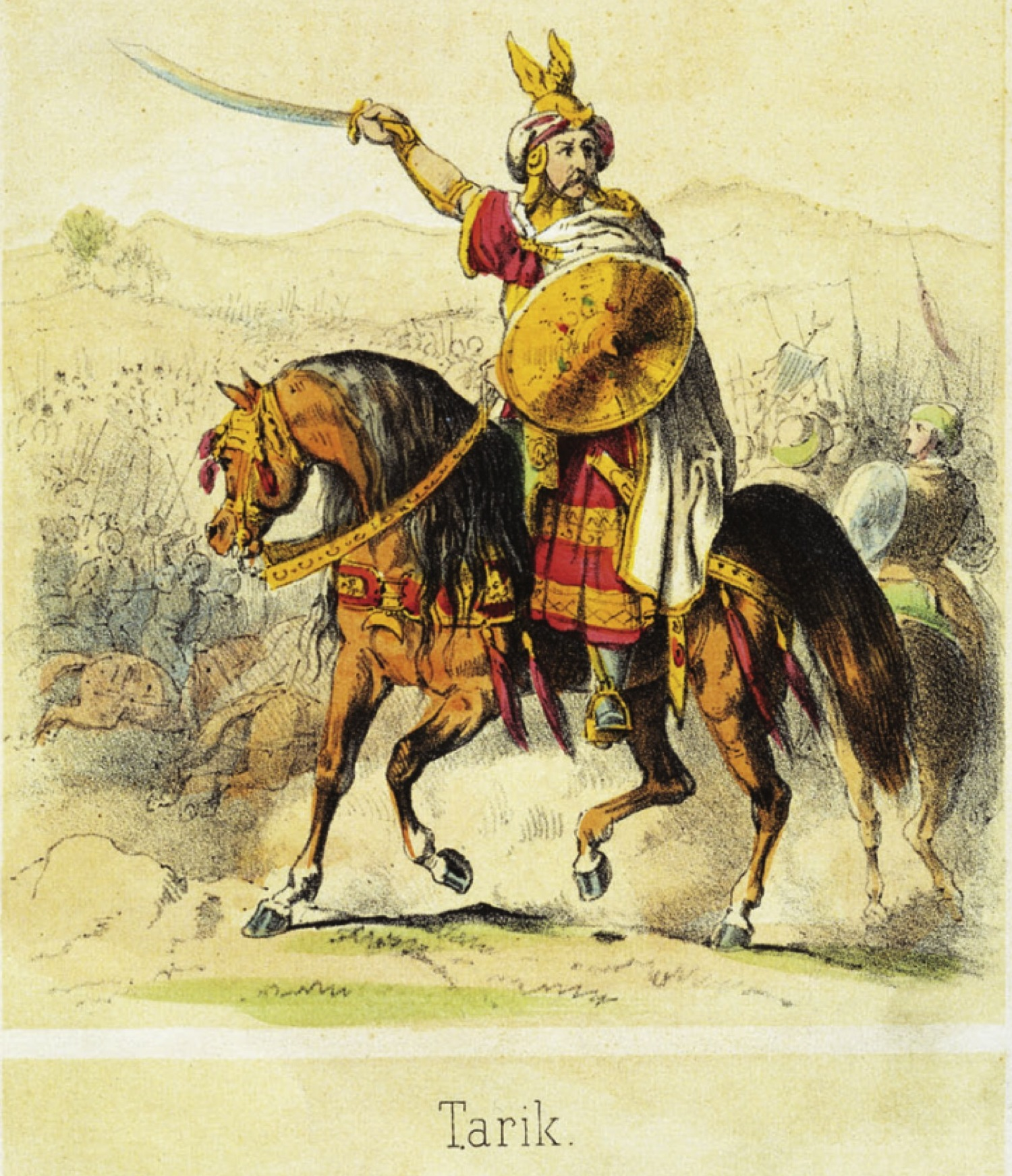 illustration intended for the mid-nineteenth-century history of the European Middle Ages.